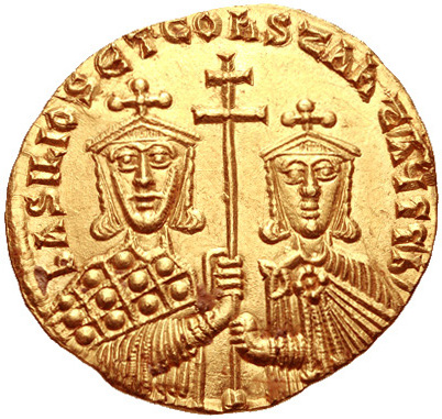 Basil I the Macedonian, with Constantine. 867-886. AV Nomisma (20mm, 4.44 g, 12h). Constantinople mint. Struck circa 871-886. ЬASILIOS ЄT COnSτANτ’ AЧςς’ Ь’, crowned facing half-length busts of Basil and Constantine, both wearing loros and holding patriarchal cross between them. DOC 2; Füeg 3.C.1; SB 1704.